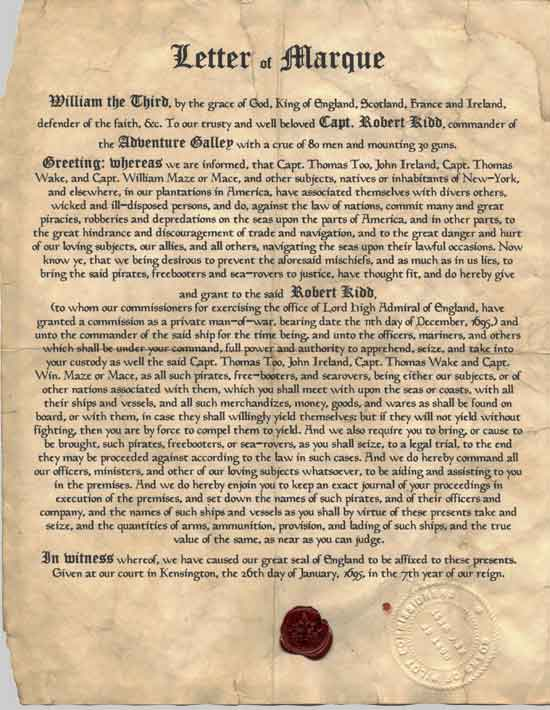 Captain William Kidd was sometimes also called William Kidd or Robert Kidd. He was a successful land owner in Manhattan Island in the American Colonies and wanted to try his hand at Privateering. He received this particular Privateering License together with a Letter of Reprisal against French merchant ships. He sailed with both commissions out of Plymouth, England in May 1696 on board the Adventure Galley. His ship carried 30 guns and had 80 crewmen. After many months at sea with no booty his crew mutinied and they all became pirates.